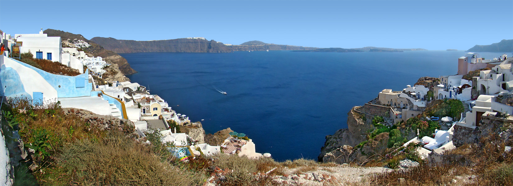 Oia, Santorini, Greece. The circle of land collapsed following the ancient volcanic eruption is evident here. From left to beyond the centre at the horizon lies the southern part of the Santorini island, with the caldera plunging into the sea. On the right are the neighbouring islets of Nea Kameni, Palaia Kameni, Aspronisi and Thirasia, all part of the bigger island before the collapse.